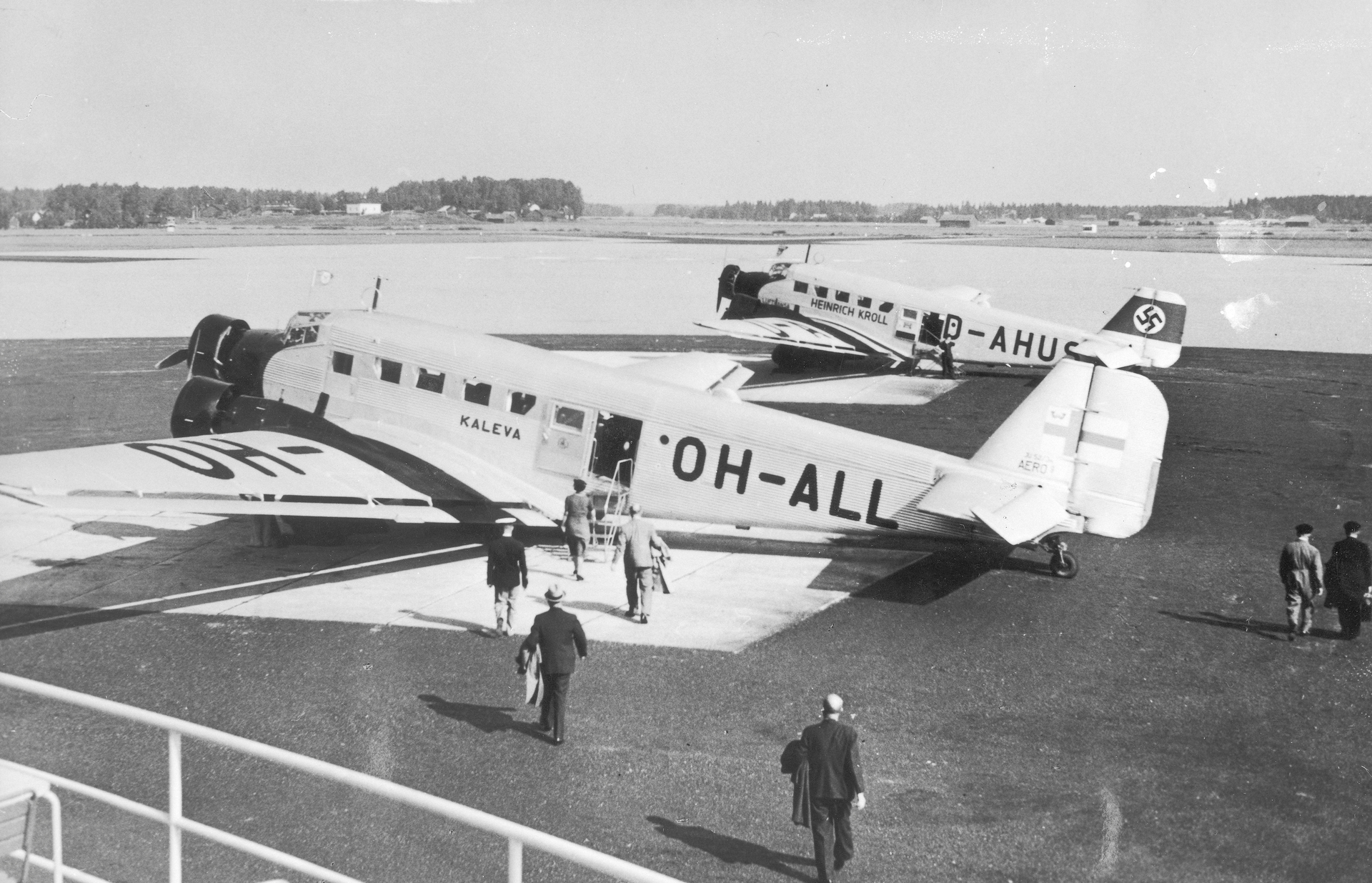 Aero O/Y (OH-ALL, Kaleva) and Lufthansa Junkers Ju-52 (D-AHUS, Heinrich Kroll) aircraft at the Helsinki-Malmi Airport in the late 1930s. The Kaleva aircraft was shot down by Soviet bombers on the 14th June 1940 off Tallinn, Estonia.